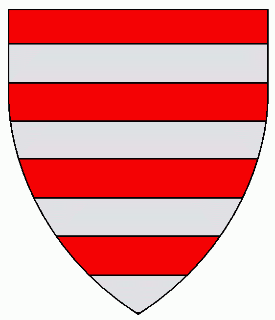 Coat of arms of the Arpad dynasty